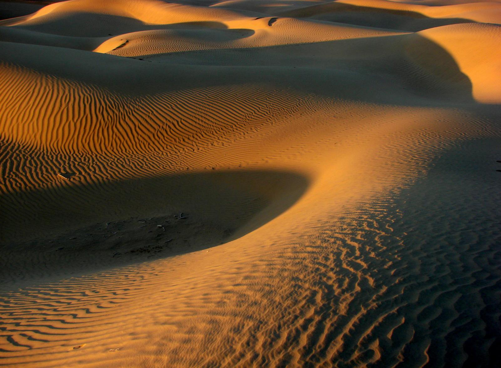 Sand dunes of Rajasthan, Nature, Geography